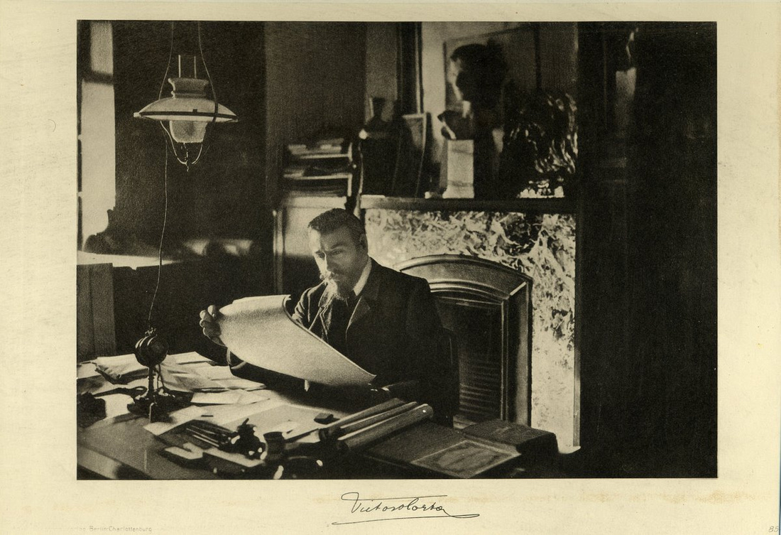 Portrait of Victor Horta c. 1900 in "La Belgique d'aujourd'hui" (The Belgium of today). Scanned by Henrotte Damien on January 13 2007